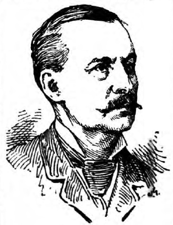 New York Herald Portrait of John C. Babcock (Feb 10, 1890)